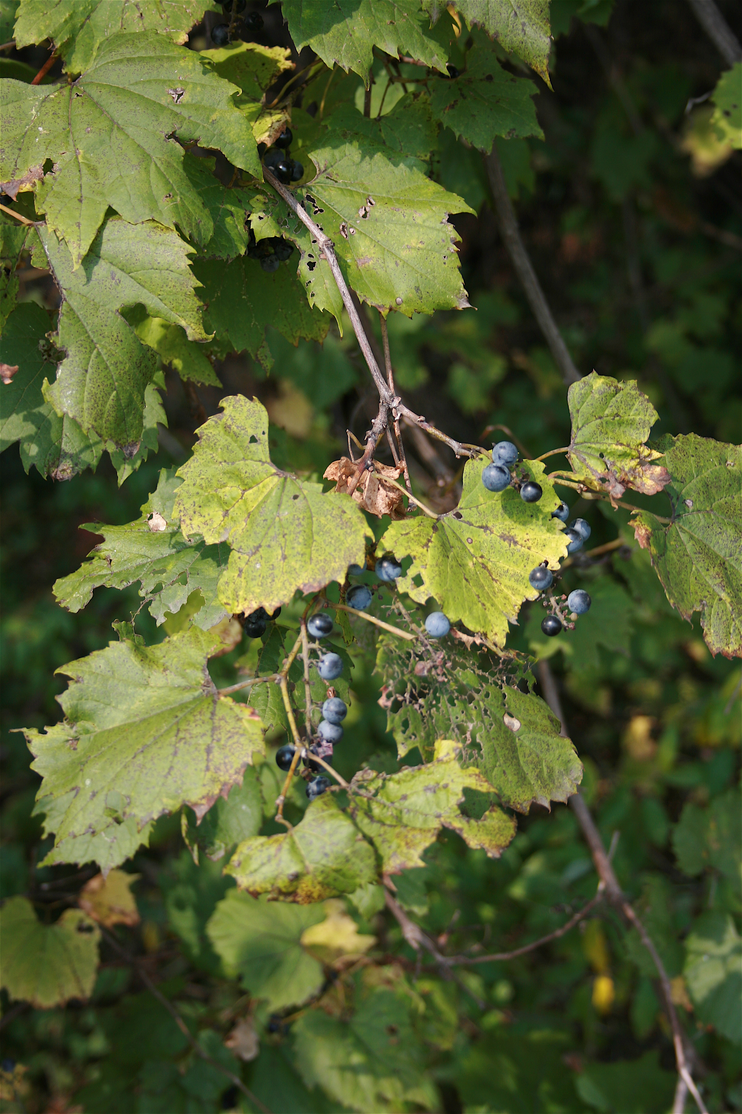 Michigan Wild Grapes (Vitis labrusca) in Portage, MI.